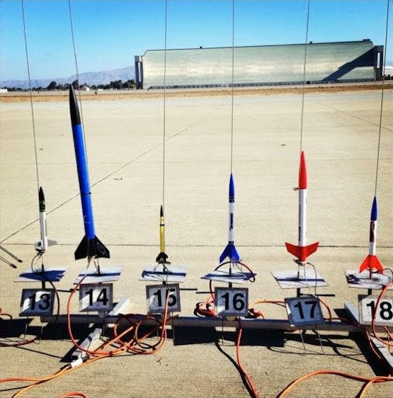 A "rack" of low-power model rockets awaiting launch at Moffett Federal Airfield, California.